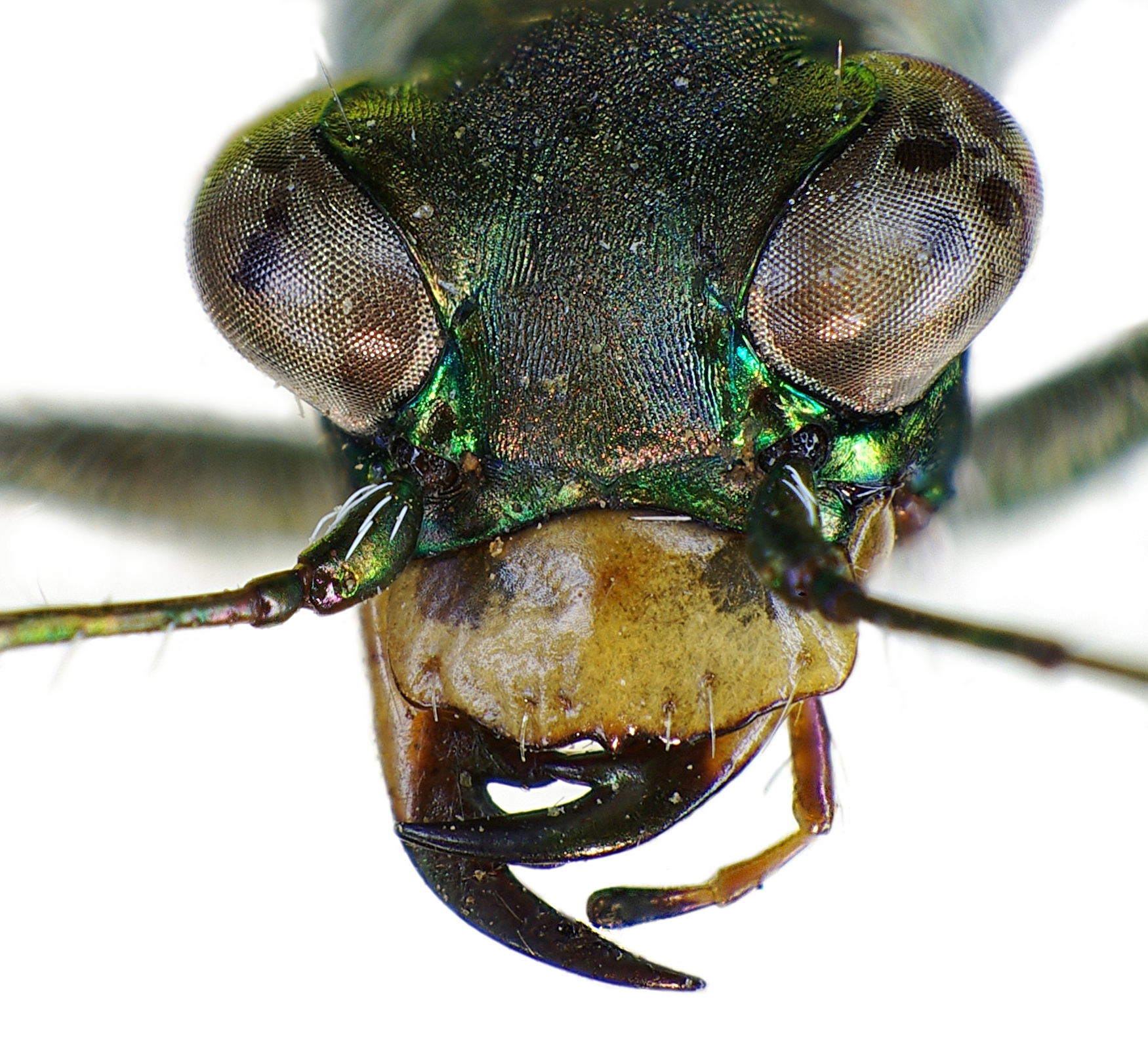 Front of Cephalota circumdata subspecies circumdata